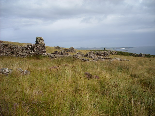 Lurabus, deserted settlement, Islay This settlement is regarded as being the largest and best preserved of the numerous deserted settlements in The Oa area of Islay. It is believed to have been settled in from 1700 onwards but the remains still there today cannot be dated further back than 1800. It seems that the settlement was deserted by the third quarter of that century.